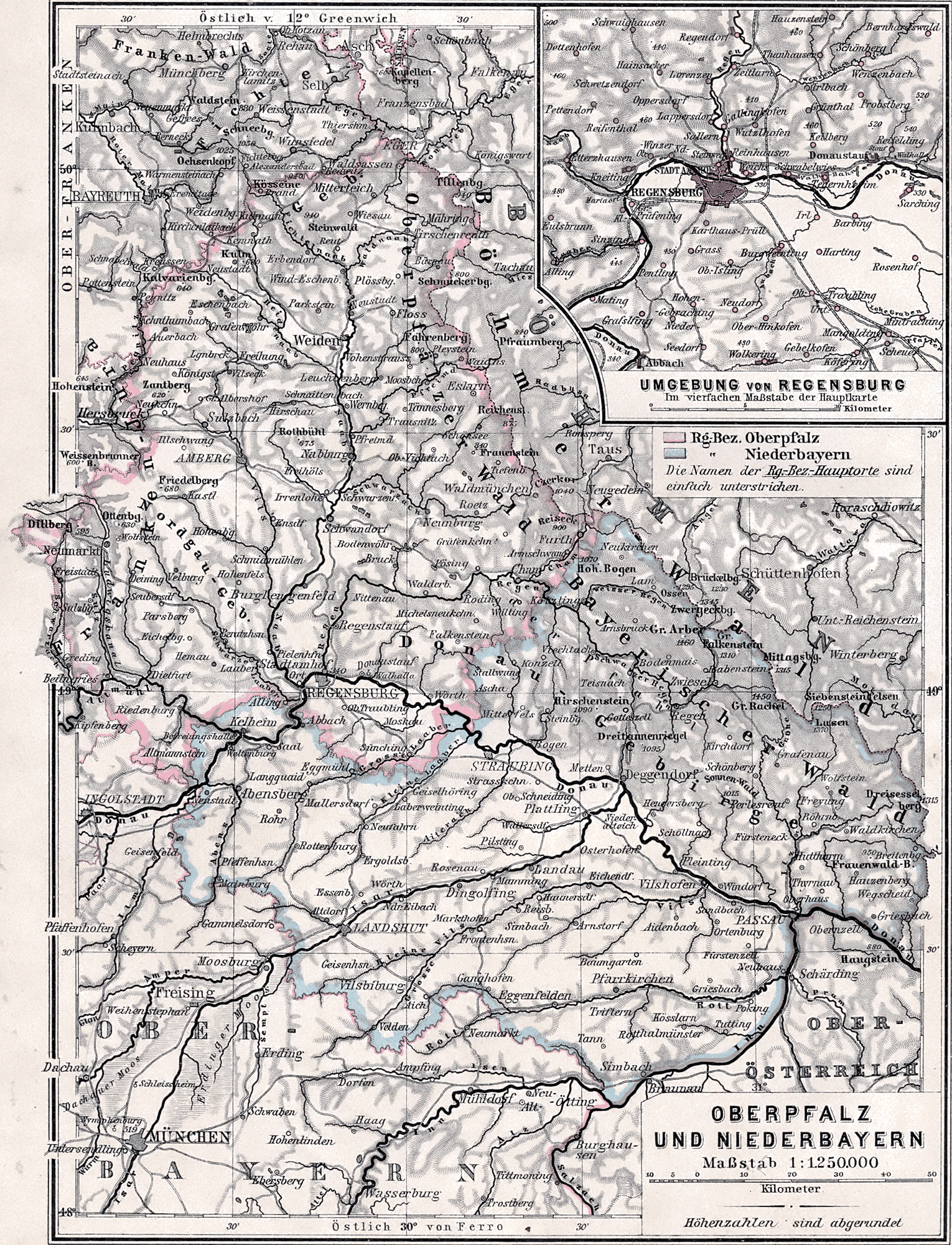 Historical map of Oberpfalz and Niederbayern